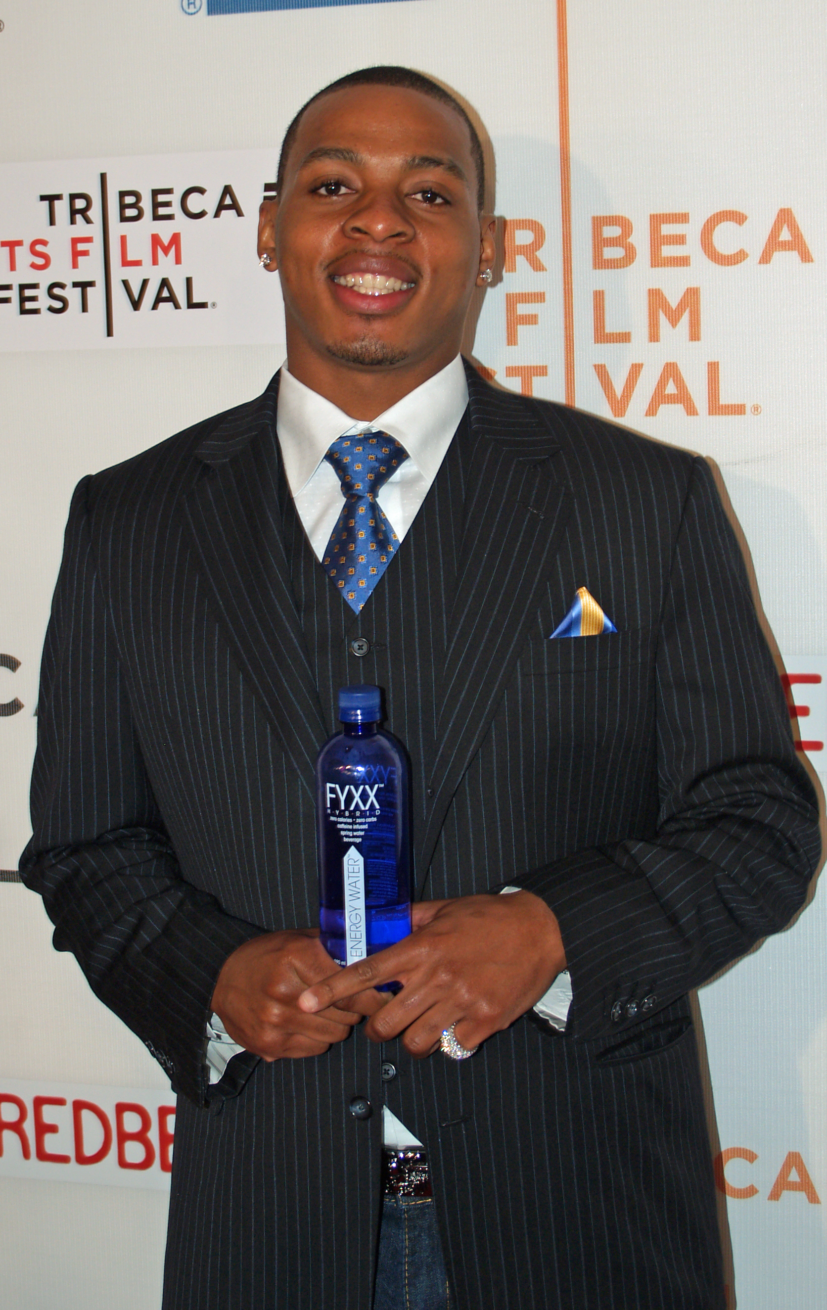 Randy Foye at the premiere of Redbelt at the 2008 Tribeca Film Festival.